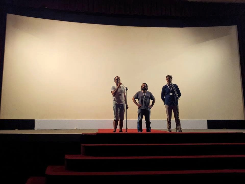 Andin_Premiere_Screening